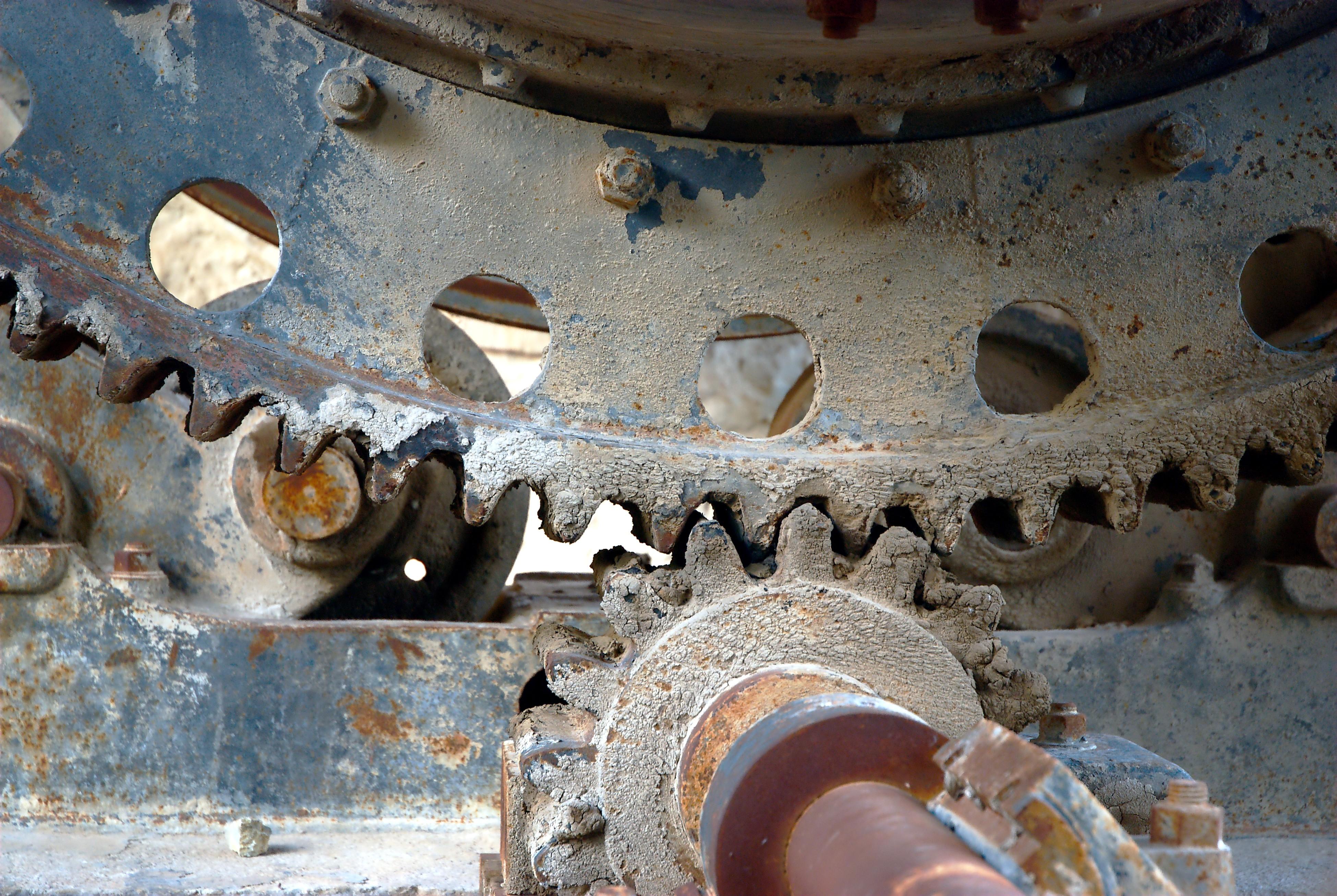 An unknown gear mechanism found at an abandoned concrete factory in Benageber, Spain.